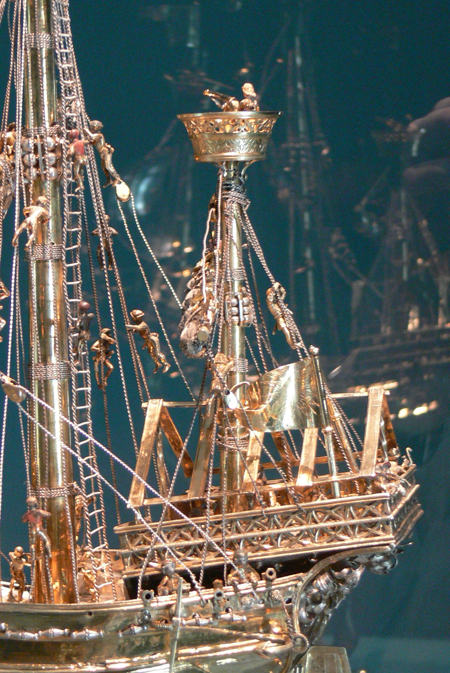 German National Museum ( Nuremberg / Germany ). So-called "Schlüsselfelder ship" ( 1508 ) from Nuremberg, used as table centrepiece - detail.